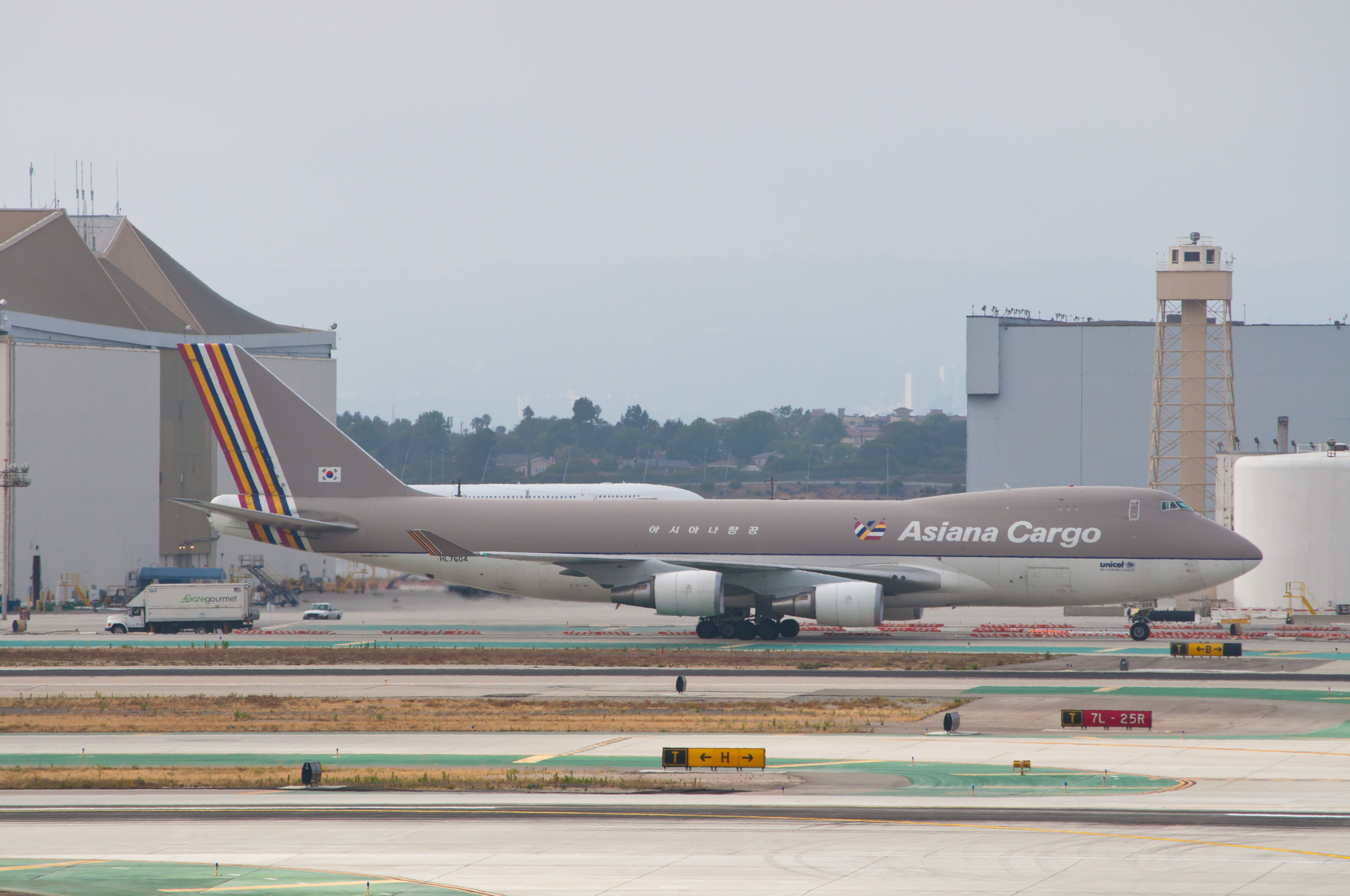 Asiana Airlines Cargo's Boeing 747 freighter (HL7604) as seen in Los Angeles, on 25 June 2011. Just over a month later, on 28 July 2011, it crashed near Jeju Island while operating a scheduled cargo service from Seoul Incheon to Shanghai Pudong.